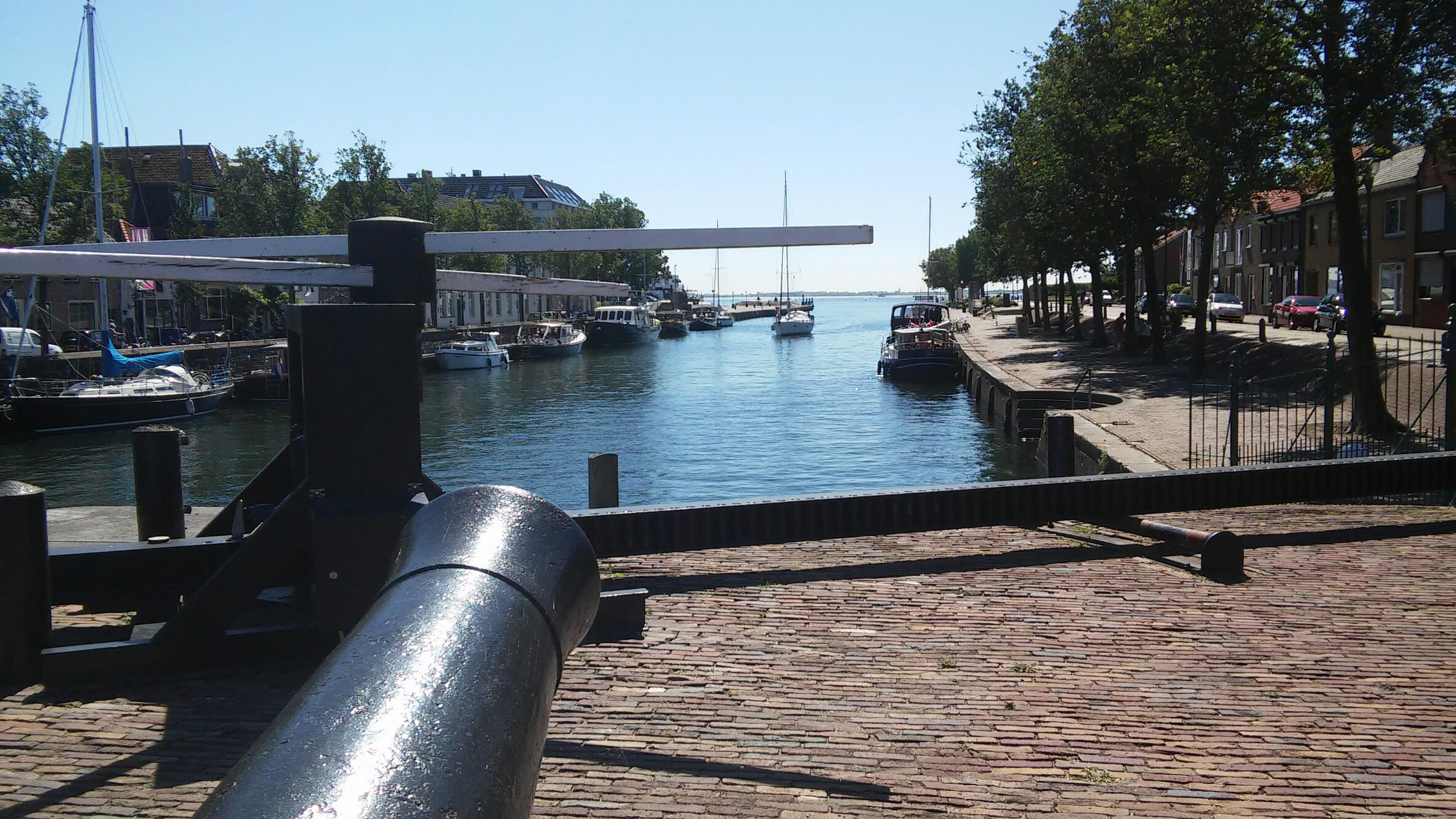 View from the bridge at the harbor.